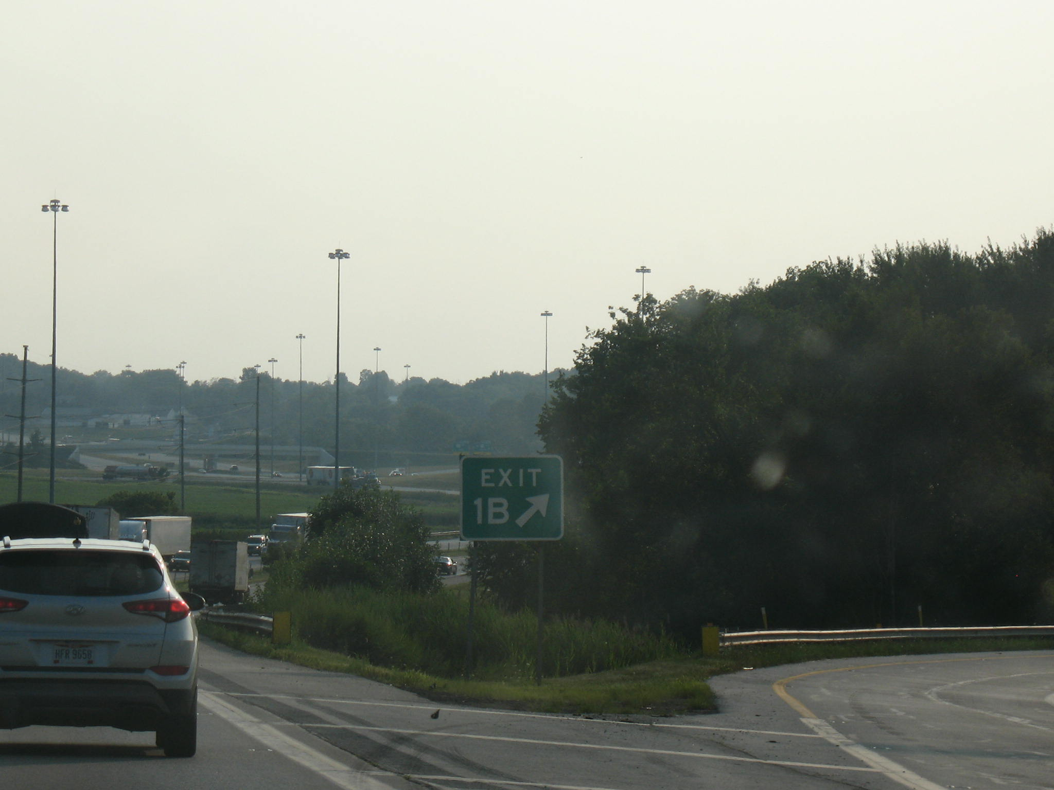 The western terminus of I-76 in Ohio at I-71